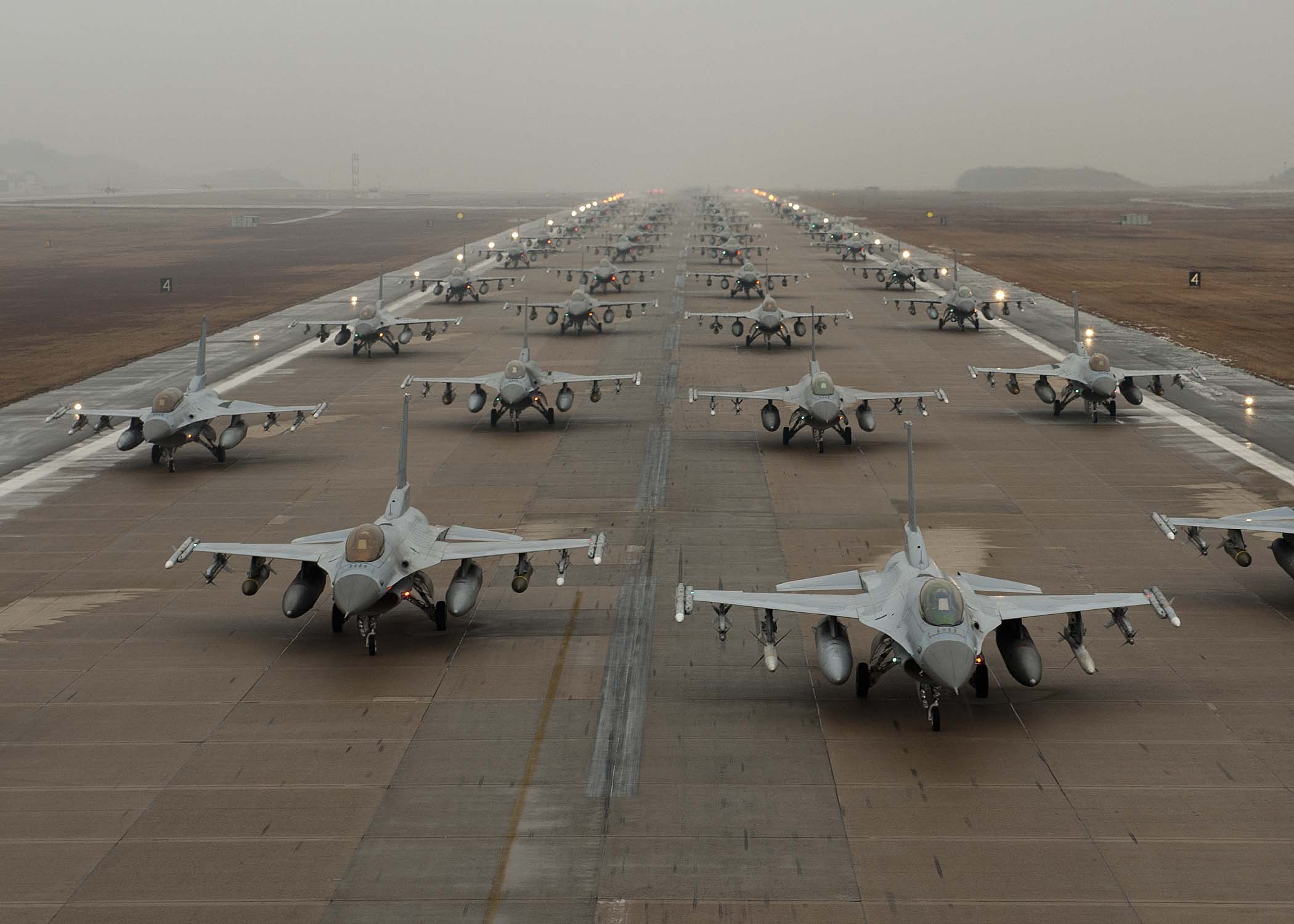 Taxi traffic F-16 Fighting Falcons demonstrate an 'Elephant Walk' as they taxi down the flightline at Kunsan Air Base, South Korea, Dec. 14, 2012. The Elephant Walk was a demonstration of U.S. and South Korean air force capabilities and strength. The F-16 Fighting Falcons are from the 35th and 80th Fighter Squadrons of the 8th Fighter Wing, Kunsan AB, South Korea; the 4th Fighter Squadron of the 388th Expeditionary Fighter Wing at Hill Air Force Base, Utah; and the 38th Fighter Group of the Republic of Korea air force. (U.S. Air Force photo/Staff Sgt. Jonathan Fowler)